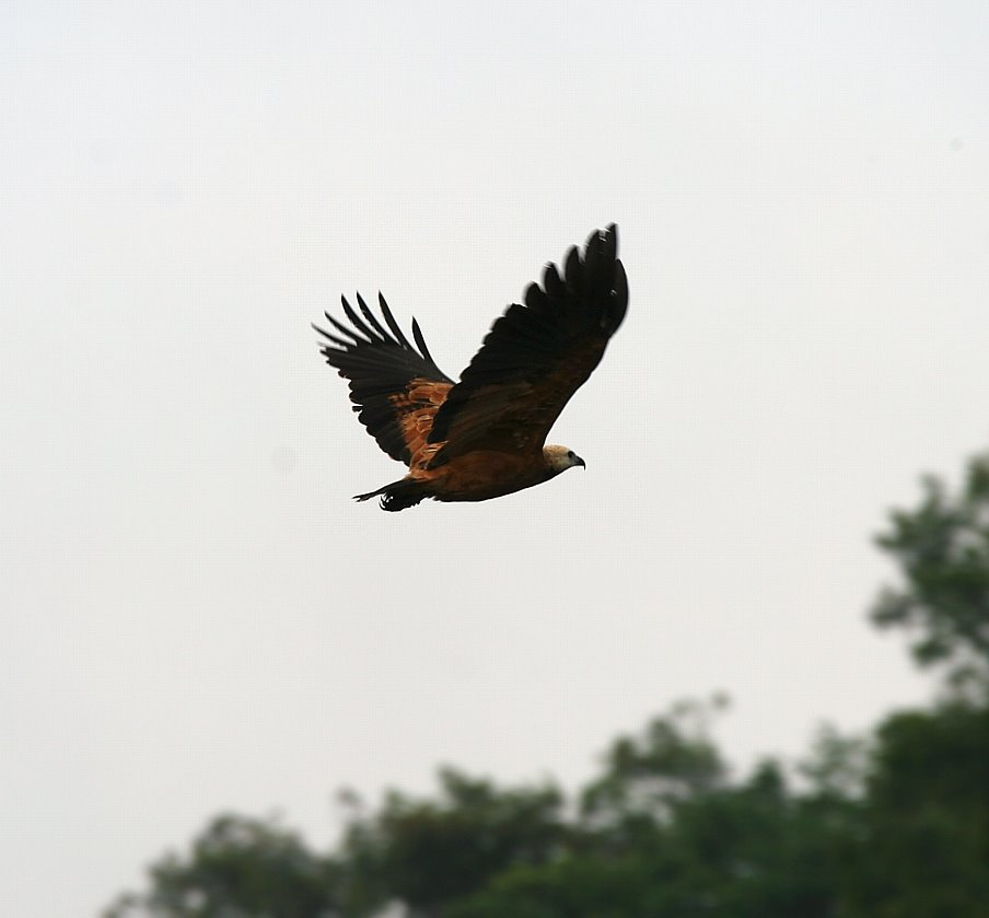 A Black-collared Hawk, Amazonia, Peru.